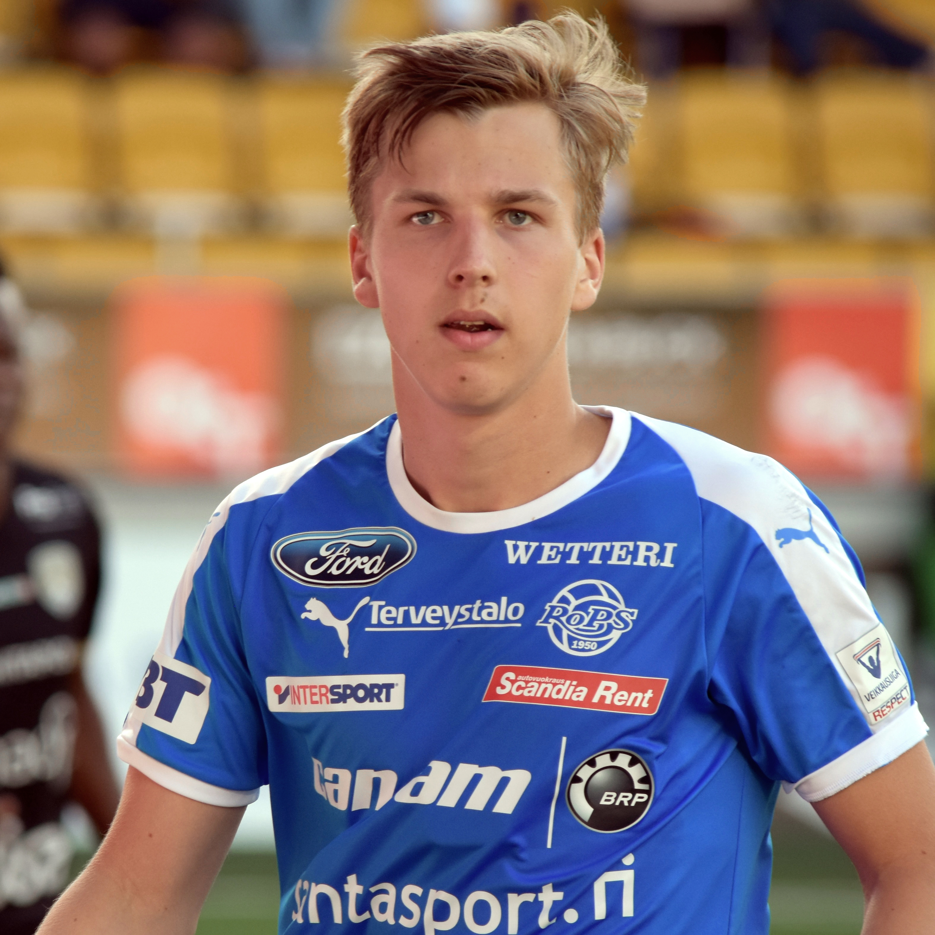 Association football player Lucas Lingman (RoPS)